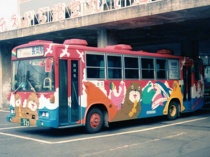 Izuhakone Railway 伊豆箱根鉄道「ラッコバス」 MITSUBISHI Fuso P-MK116J 1987年頃撮影 Photo by Cassiopeia_sweet.